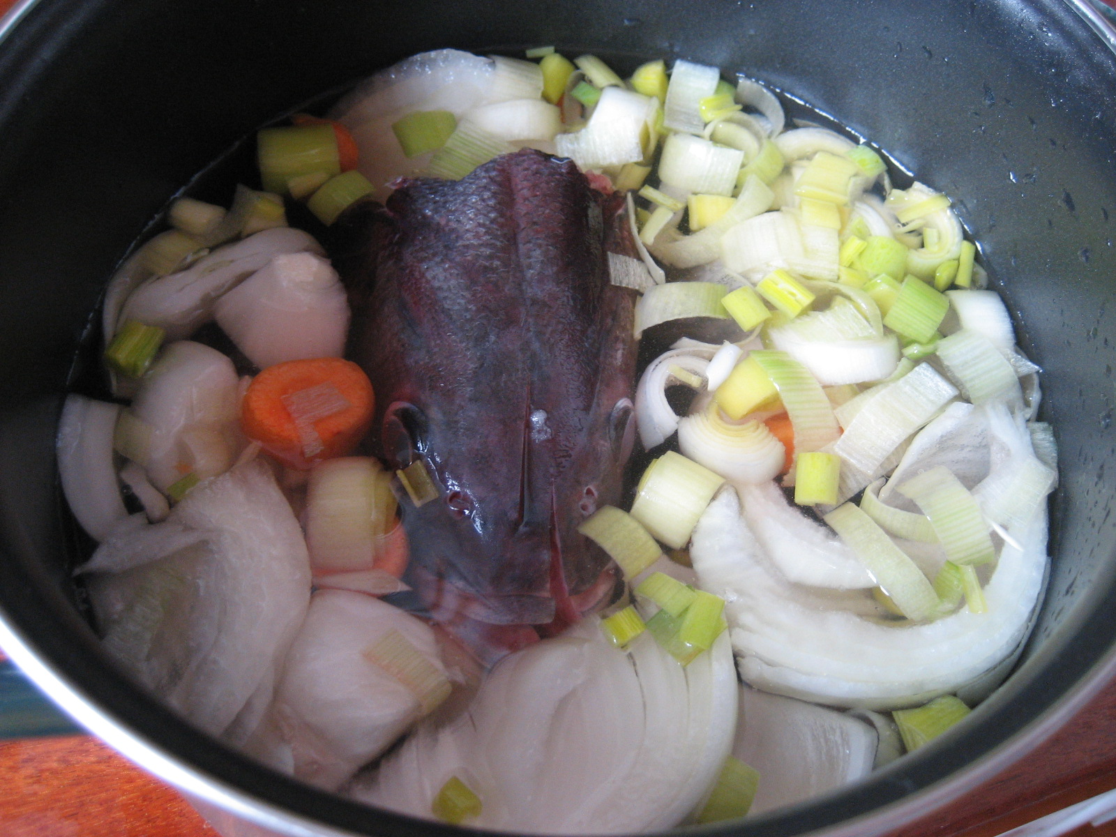 Fumet with mirepoix and head of sea dace (European seabass)